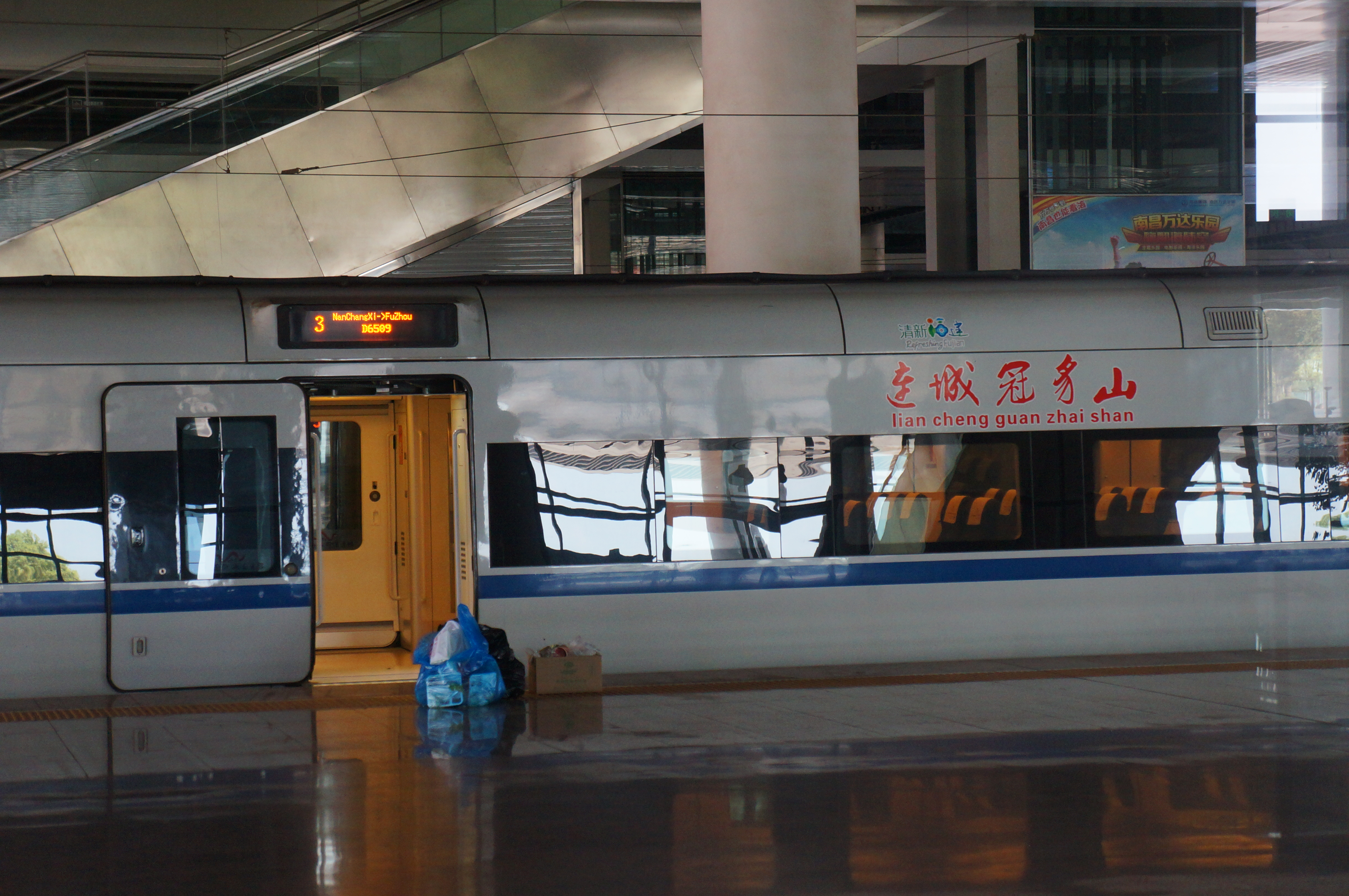 201608 Coaches of CRH1A-1081, with the adv of Liancheng Guanzhaishan